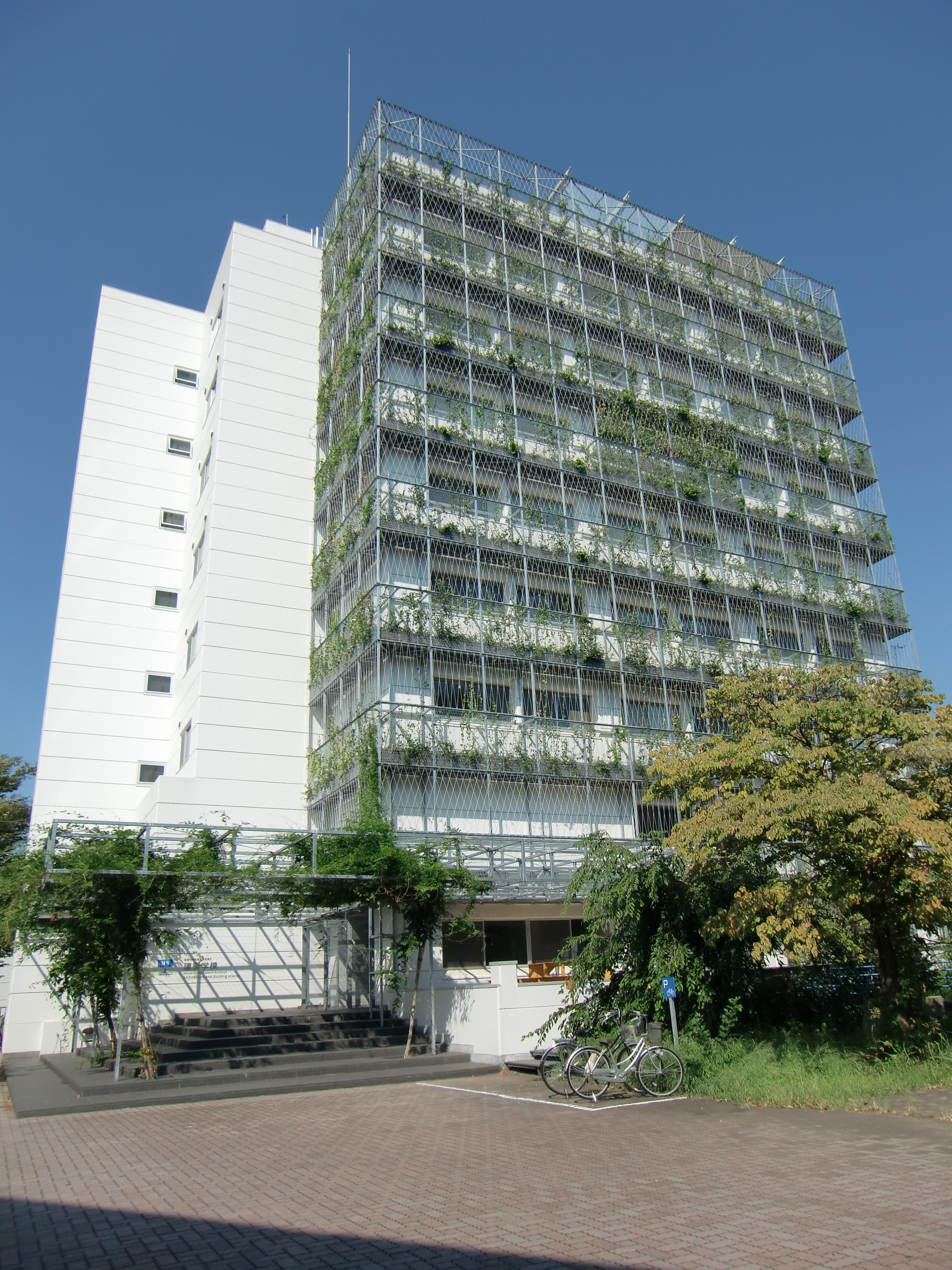 Natural Science Reserch BuildingⅡ(Architecture and Building science), Yokohama National University, Yokohama, Japan.